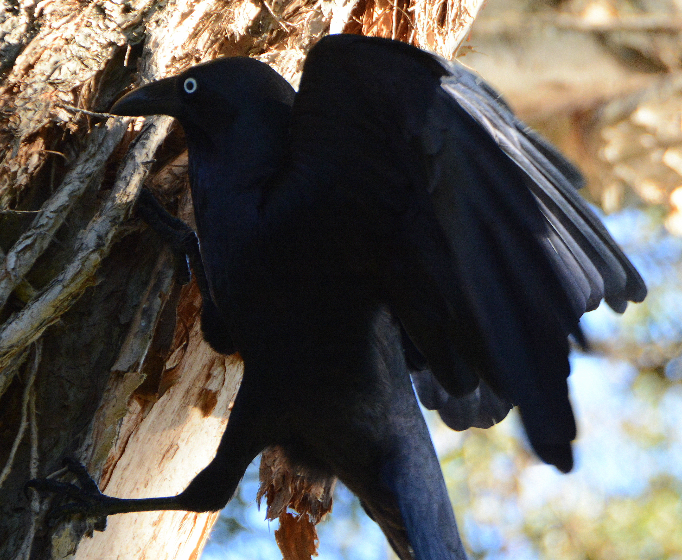 Crow, Centennial Park, Sydney